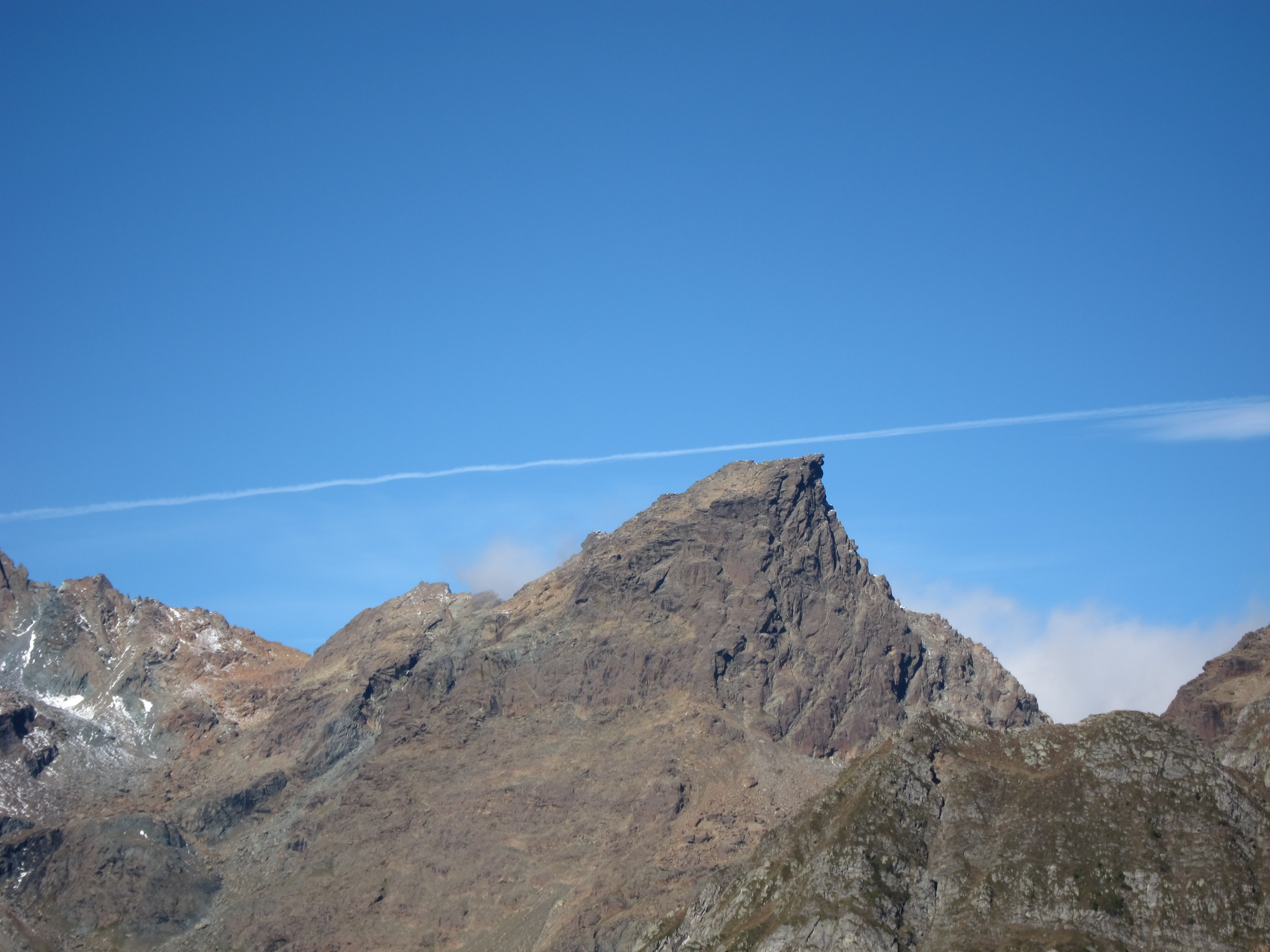 Mount Punta della Rossa (Rothorn) 2888 m.a.s.l. in Devero Valley - Baceno VB, Piemonte Italy - 2018-10-03 Panoramic view seen from Monte Corbernas. The mountain peak is mount Punta della Rossa (Rothorn) 2888 masl. The Devero valley is in Baceno municipality, VB, region Piedmont, in Italy. Taken on the 3rd of October 2018. 2018-10-03